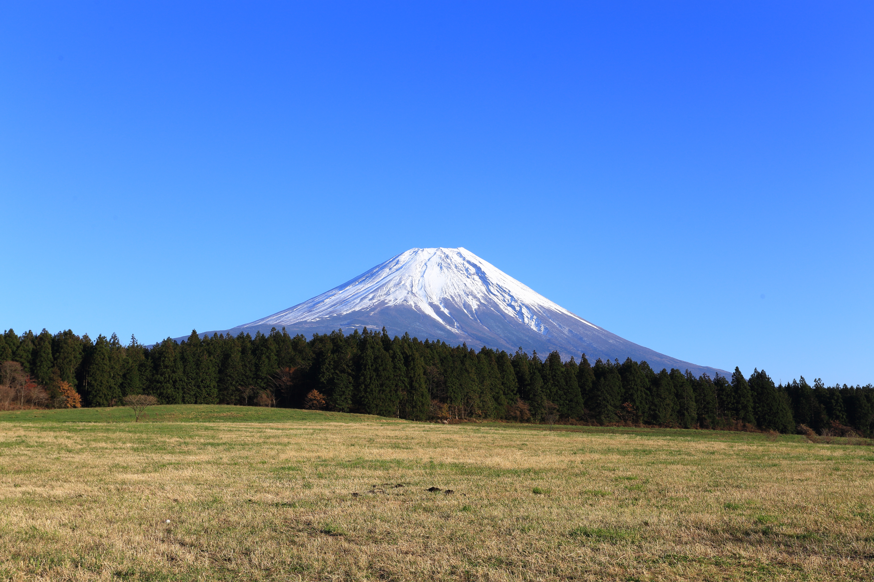 Mount Fuji seen from the WNW.